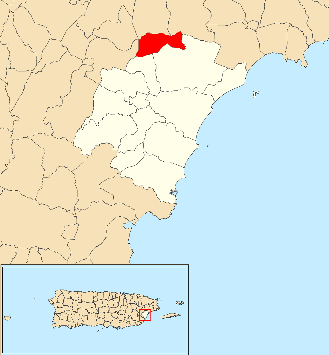 Mambiche, Humacao, Puerto Rico locator map